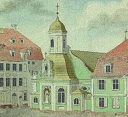 Riga Our Lady of Sorrows Roman Catholic Church in 1791Latviešu: No J.K.Broces zīmējuma 1791. gadā